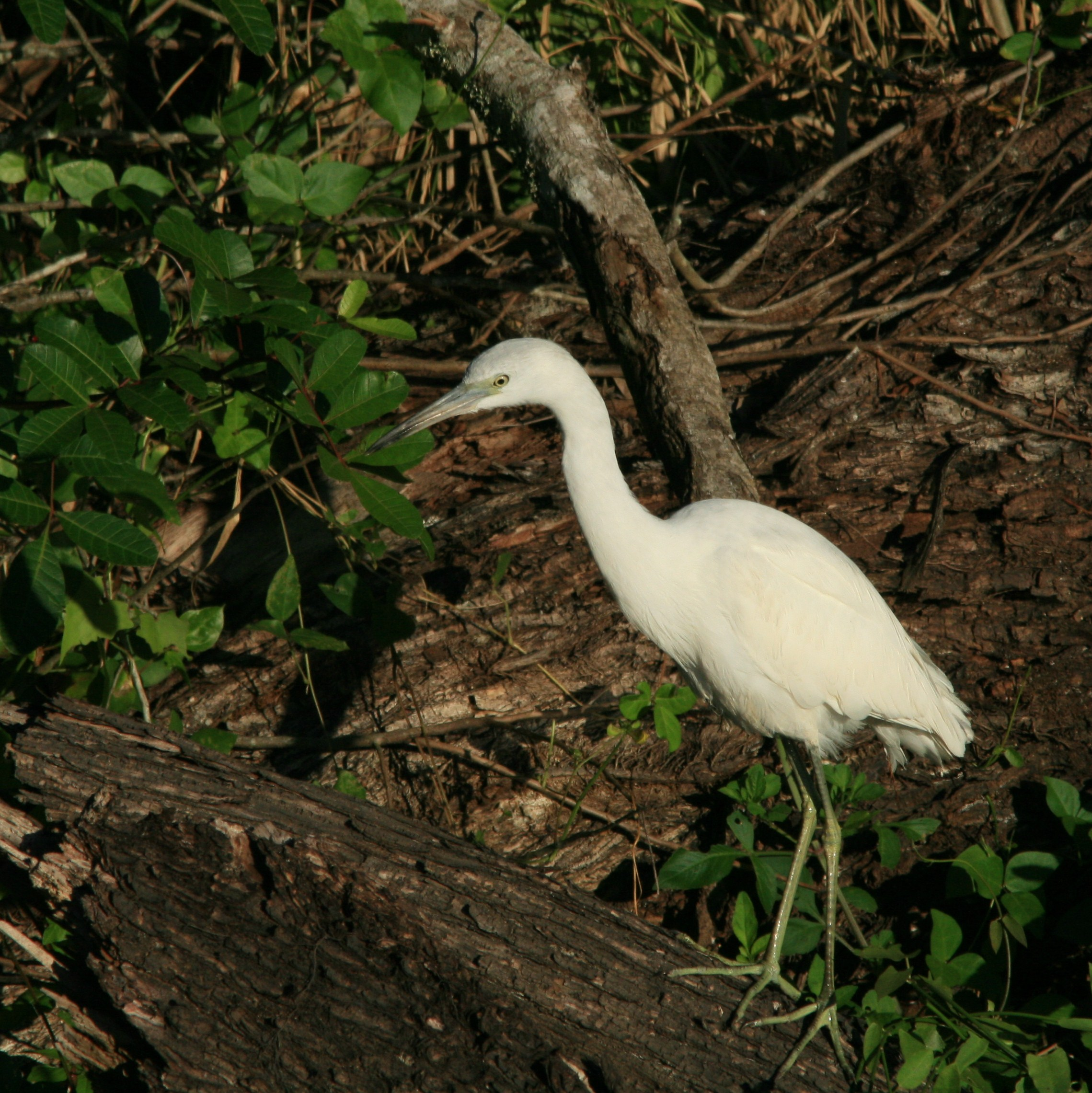 Juvenile little blue heron seen in Loxahatchee National Wildlife Refuge, West Palm Beach, Florida.